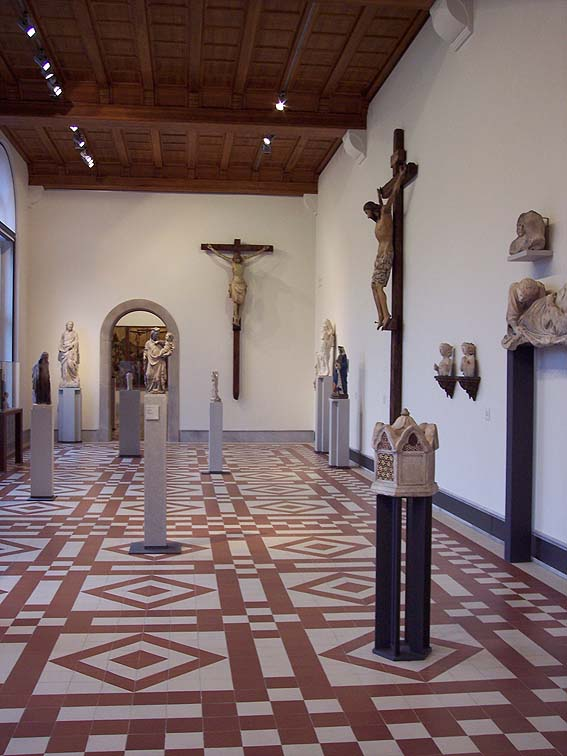 Bode Museum Native nameBode-MuseumParent institutionBerlin State MuseumsLocationBerlinCoordinates52° 31′ 19″ N, 13° 23′ 41″ E Established1904Web page control : Q157825 VIAF: 131826984 ISNI: 0000 0001 2348 0535 LCCN: nr2007002827 OSM: 2186879 GND: 5044715-4 WorldCat institution QS:P195,Q157825 Interior. Trecento-Room.